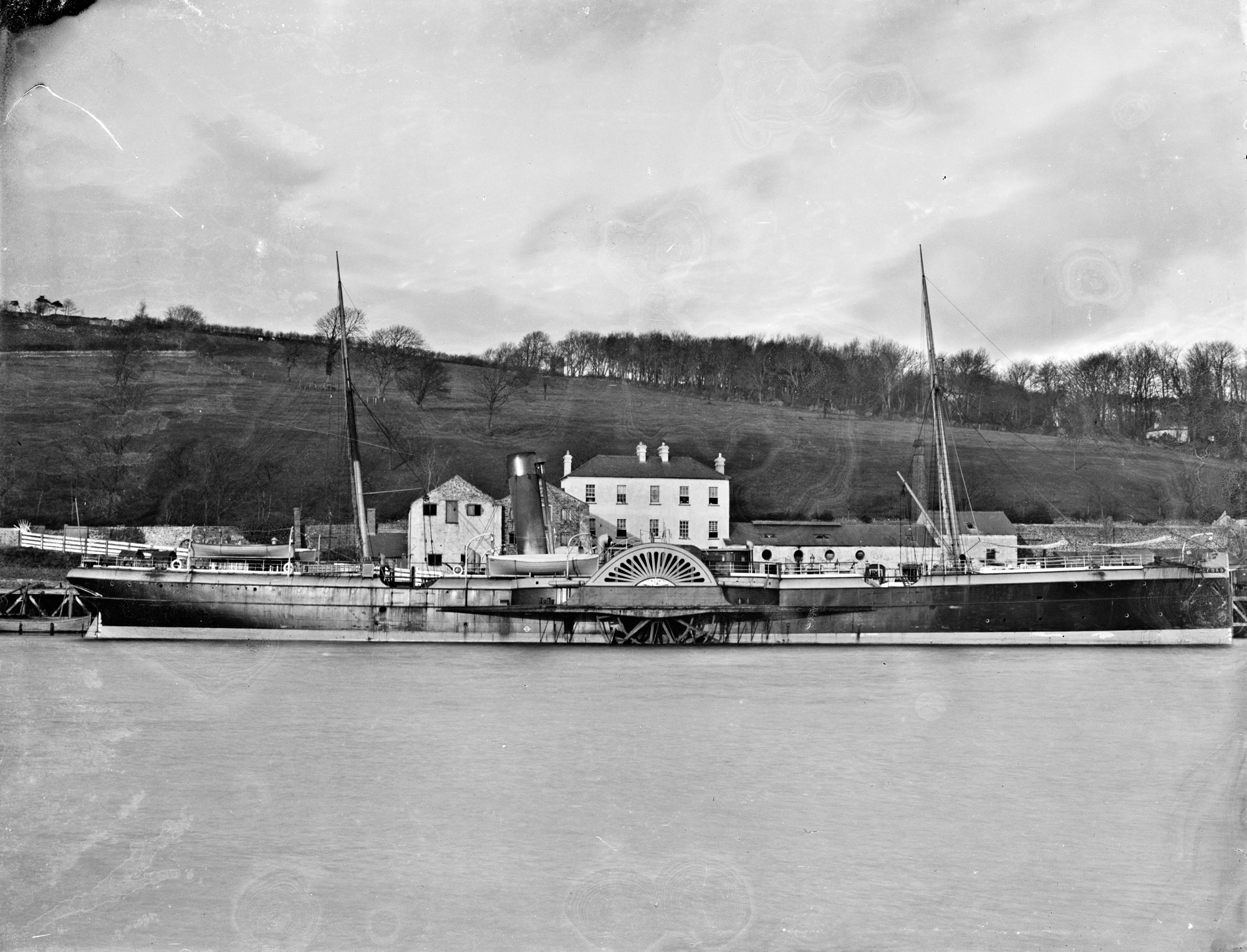 This Great Western paddle steamer moored close to Waterford makes a fine Poole image to begin the week. With thanks today to [/photos/angeljim46/ AndyBrii], [/photos/129555378@N07/ sharon.corbet], [/photos/91549360@N03/ O Mac], [/photos/beachcomberaustralia/ beachcomberaustralia] and especially [/photos/33577523@N08/ ofarrl], we have confirmation of subject, date, and a concrete location for this image. Specifically, it is understood that this is the paddle steamer PS Milford, which operated on the GWR's Milford Haven to Waterford route from 1874. It is pictured on the North Wharf of Waterford, close to Ferrybank - likely later in its career, prior to the ship being broken-up in 1901. Photographer: A. H. Poole Collection: Poole Photographic Studio, Waterford Date: catalogue range ca.1901-1954, but no later than end of 1901 NLI Ref: POOLEWP 0150a You can also view this image, and many thousands of others, on the NLI’s catalogue at